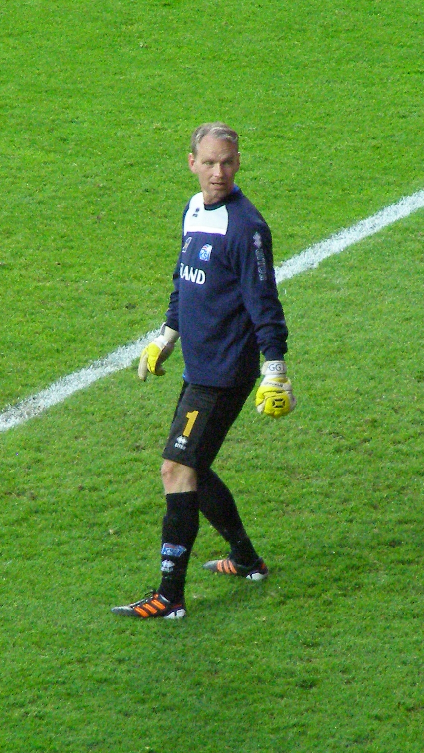 Gothenburg - Gamla Ullevi - Sweden-Iceland friendly - Gunnleifur Gunnleifsson